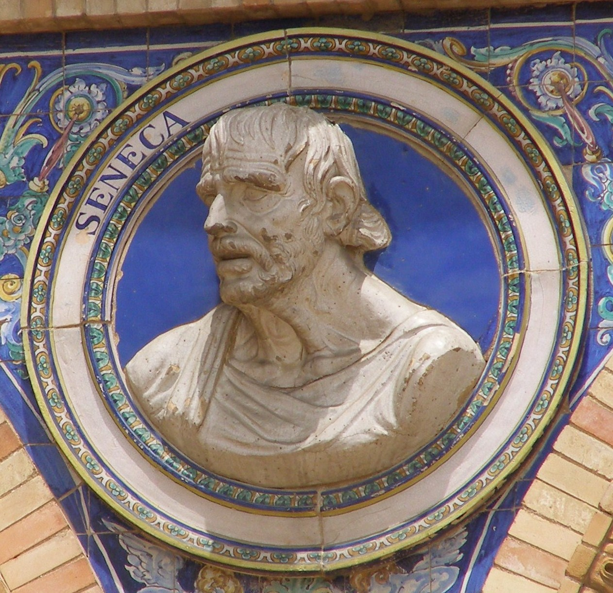 Seneca (Pseudo-Seneca) bust in the Plaza de España in Sevilla